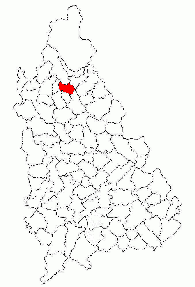 Locator map of the town of Fieni in Dâmbovița County, Romania